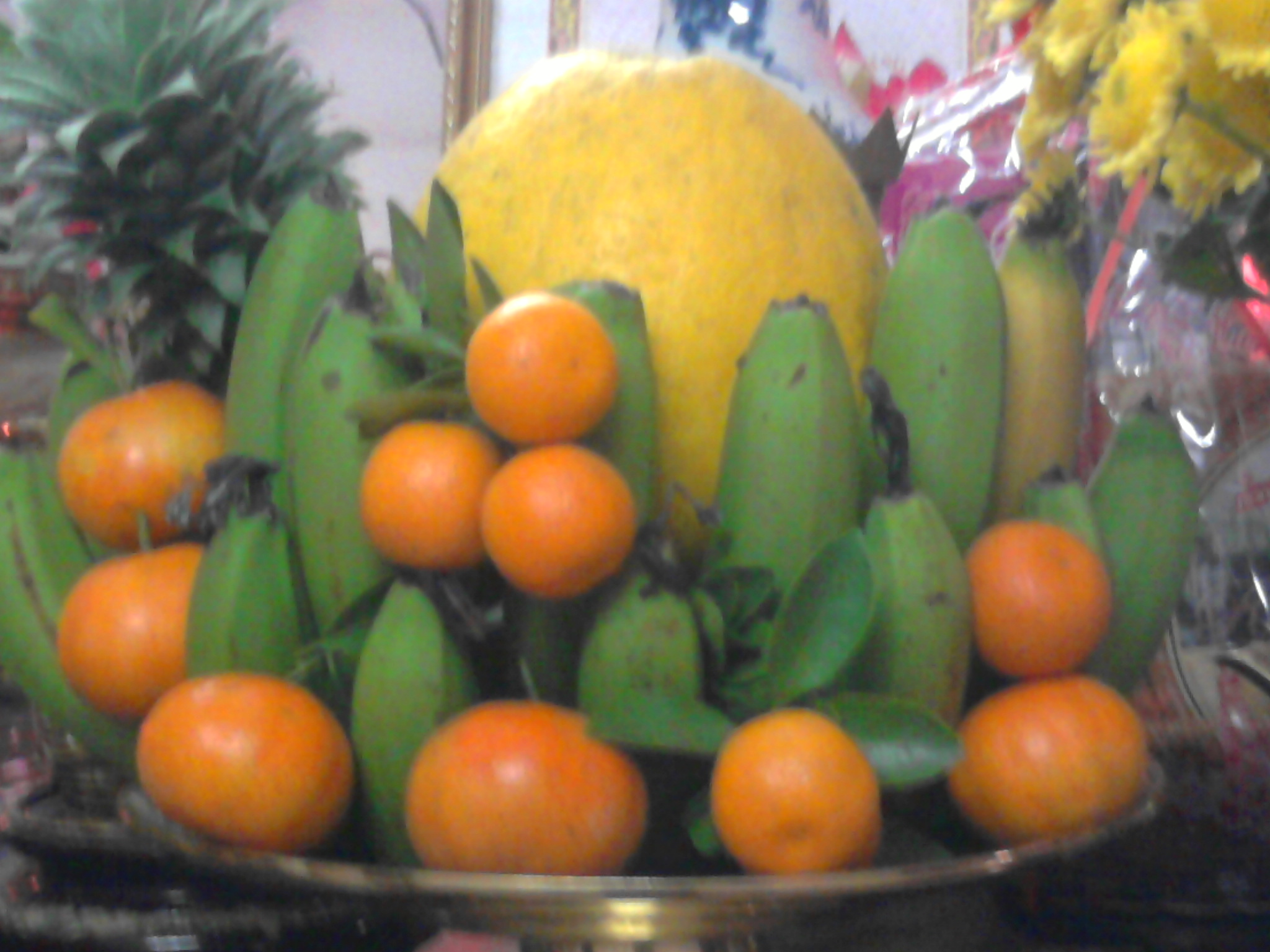 A tray of five fruits present on the altar, including bananas, oranges, tangerines, pomelo, and pineapple. (per Google Translate)